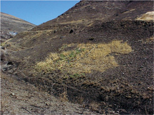 Patch of Blepharizonia plumosa in a burned area at Lawrence Livermore Nat'l Laboratory land in California, USA.